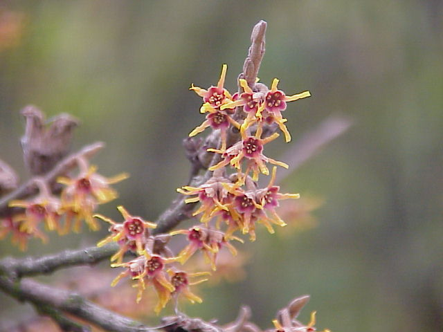 Species: Hamamelis vernalis Family: Hamamelidaceae Image No. 1